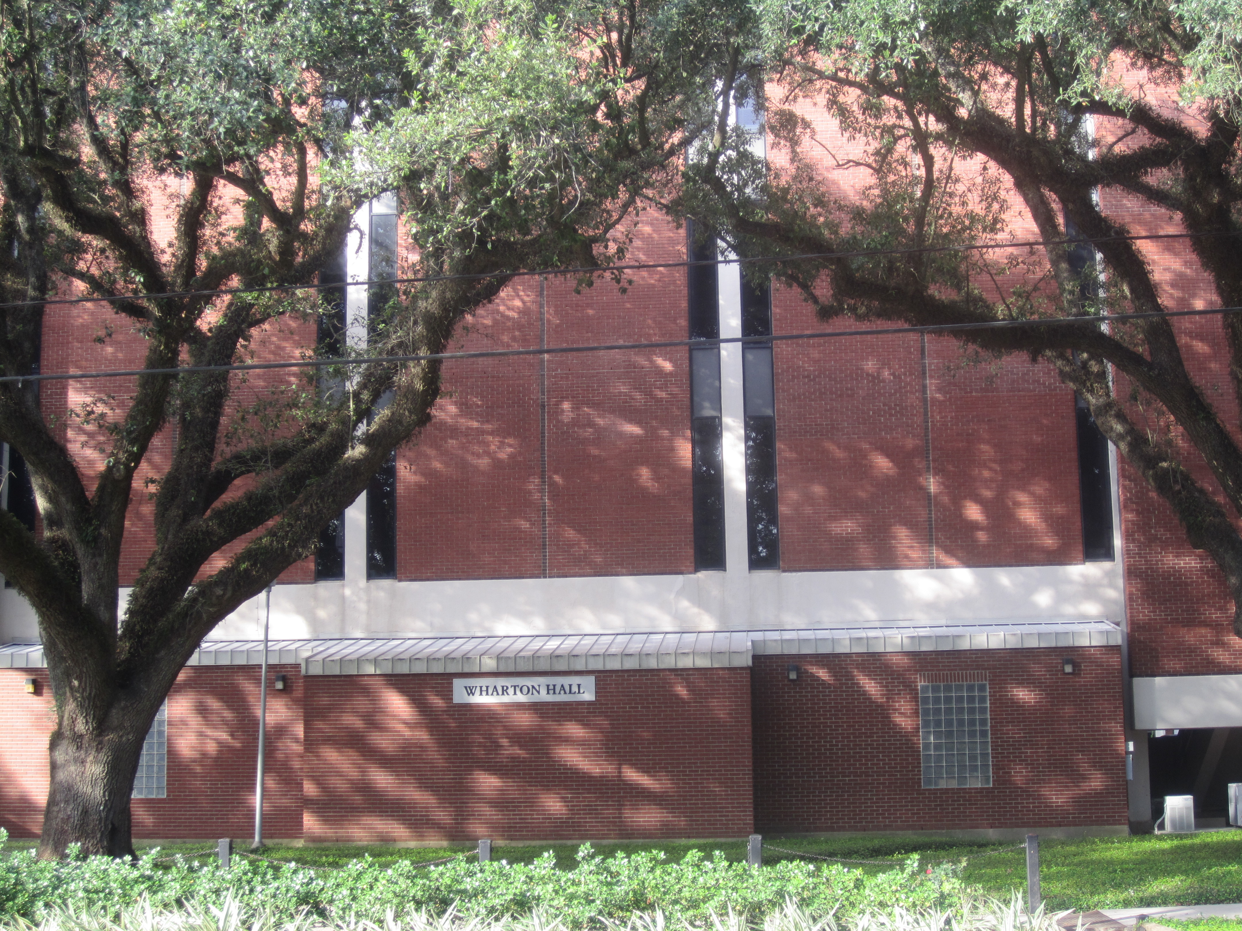 I took photo of Wharton Hall at ULL in Lafayette, LA, with a Canon camera.